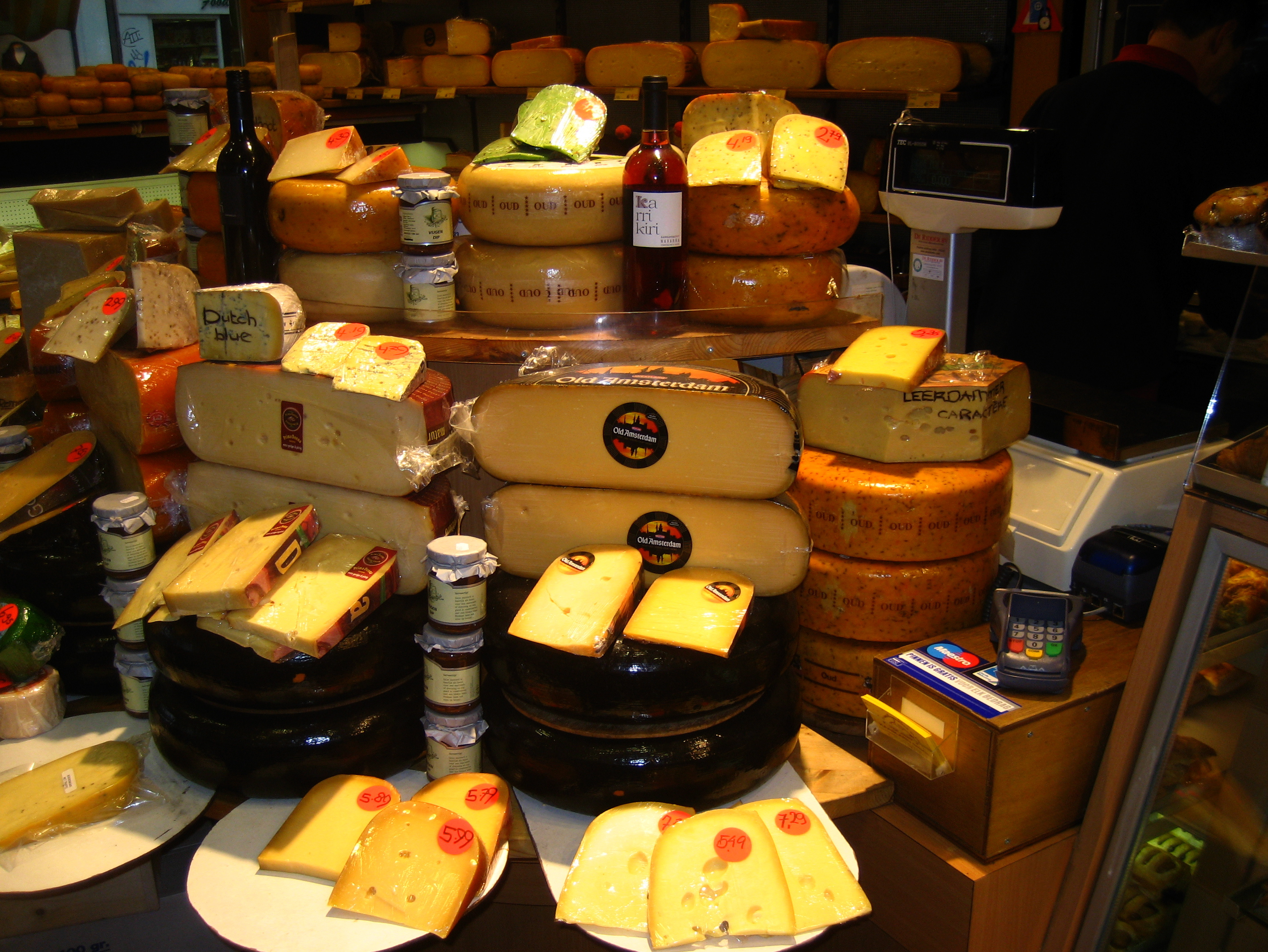 Shots from Sean and Alistair's trip to Measureworks in Amsterdam